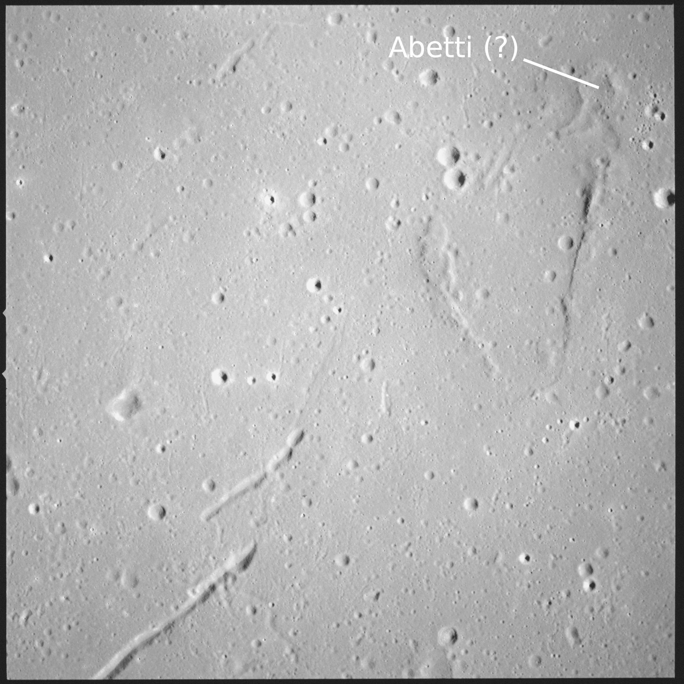 Mare Serenitatis west of Apollo 17 landing site. Moon crater Abetti (?) at upper right. Apollo 17 image AS17-150-23013, remapped to a north-up view. Converted to grayscale.